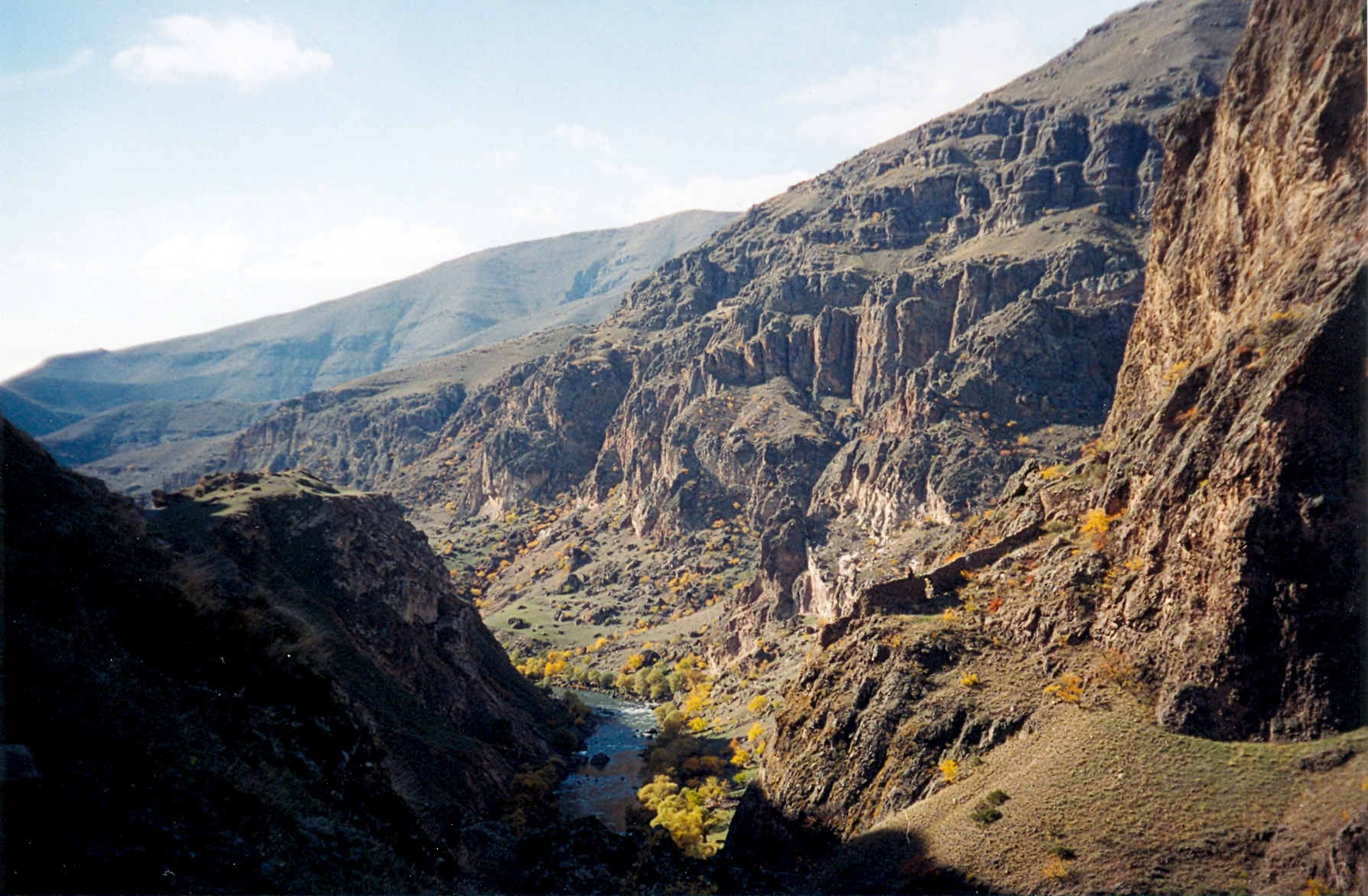 Kura River near Vardzia, Georgia.